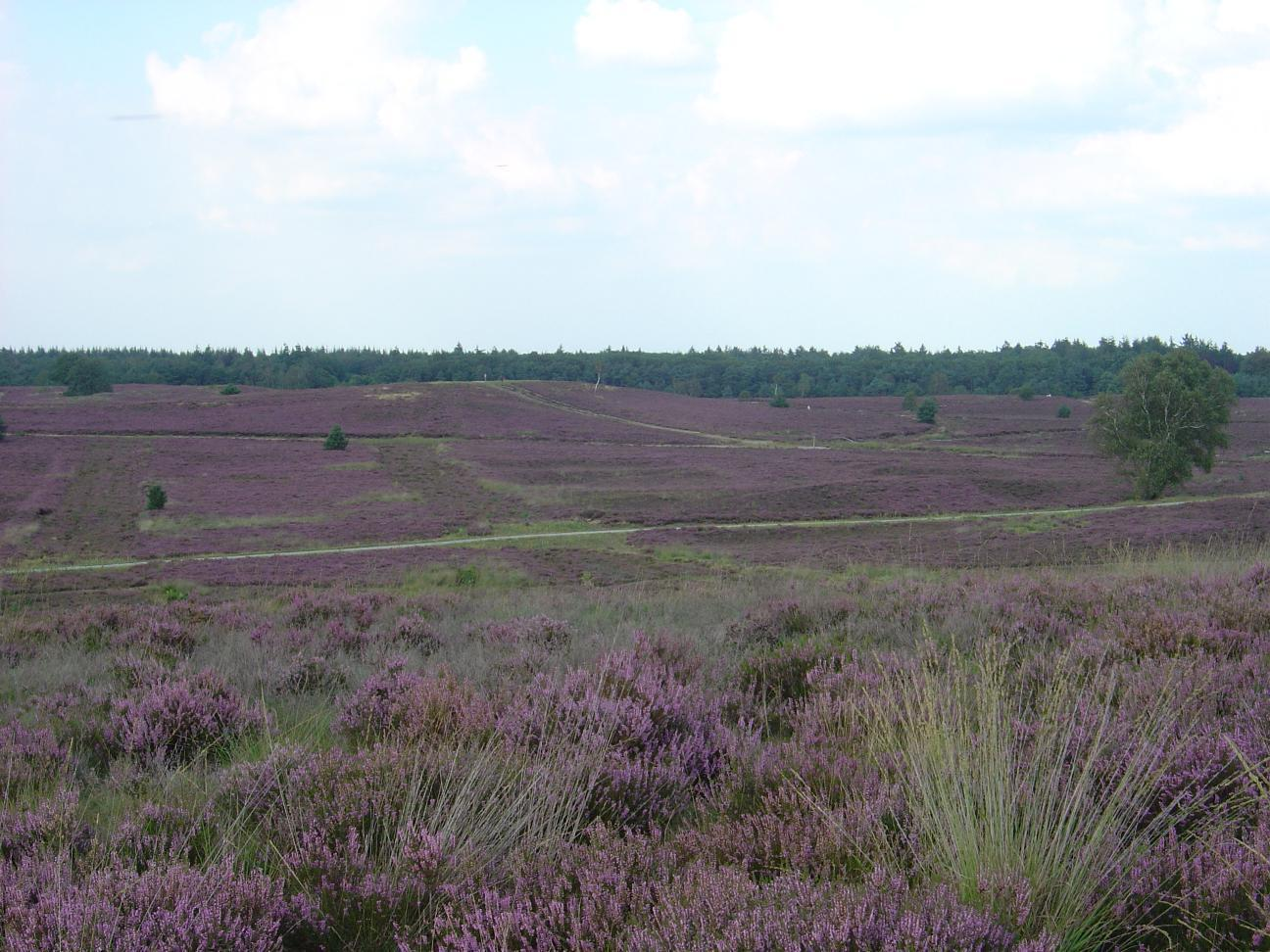 Heathland (with Calluna vulgaris) (Elspeet, Nederland)